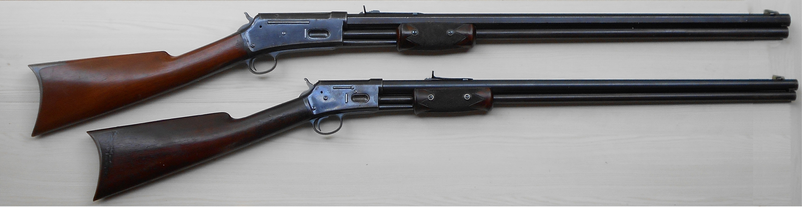 Two Colt Lightning Rifles